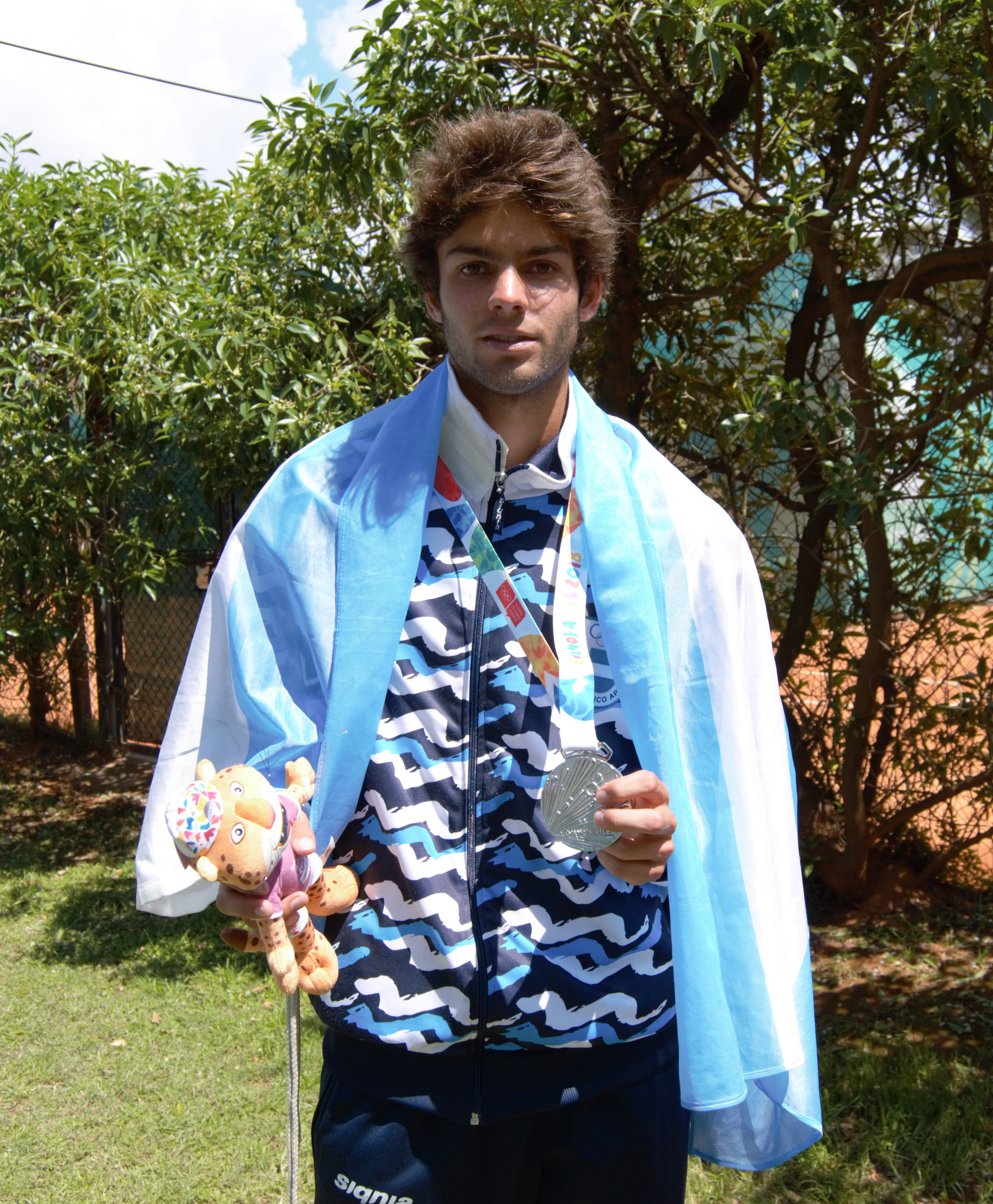 Facundo Díaz Acosta shows his silver medal after the final match of the 2018 Summer Youth Olympics.